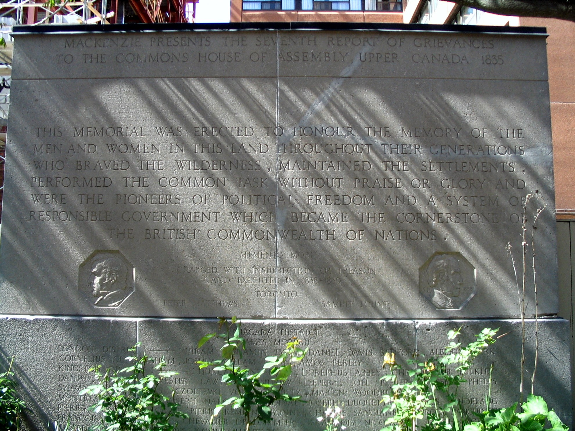 One of the "Mackenzie Panels" in the garden of Mackenzie House, Toronto, Ontario, Canada.The Mackenzie Panels are the remains of the former Clifton Gate Pioneer Memorial Arch, originally located in Niagara Falls. Unveiled in 1938, the arch was dismantled in 1968 to make way for a road widening. The arch had been built to honour the early pioneers who laboured to settle the land, and also to the memory of the martyrs of the Rebellions of 1837. The panels were designed by C.W. Jefferys and sculpted by Emanuel Hahn. One of the panels shows Mackenzie presenting his historic Seventh Report of Grievances to the House of Assembly of Upper Canada. Names of those executed during the repression that followed defeat of the rebellion appear on one of the panels, as do profiles of the two rebels who met their death on the scaffold in Toronto, Samuel Lount and Peter Matthews.In 1974, it was revealed publicly that the historic panels were stored in a yard of the City of Toronto parks department, prompting Toronto City Council to pursue the restoration of the panels. They were repaired in the workshops of one of the original carver-sculptors and found their place in the garden of Mackenzie House.